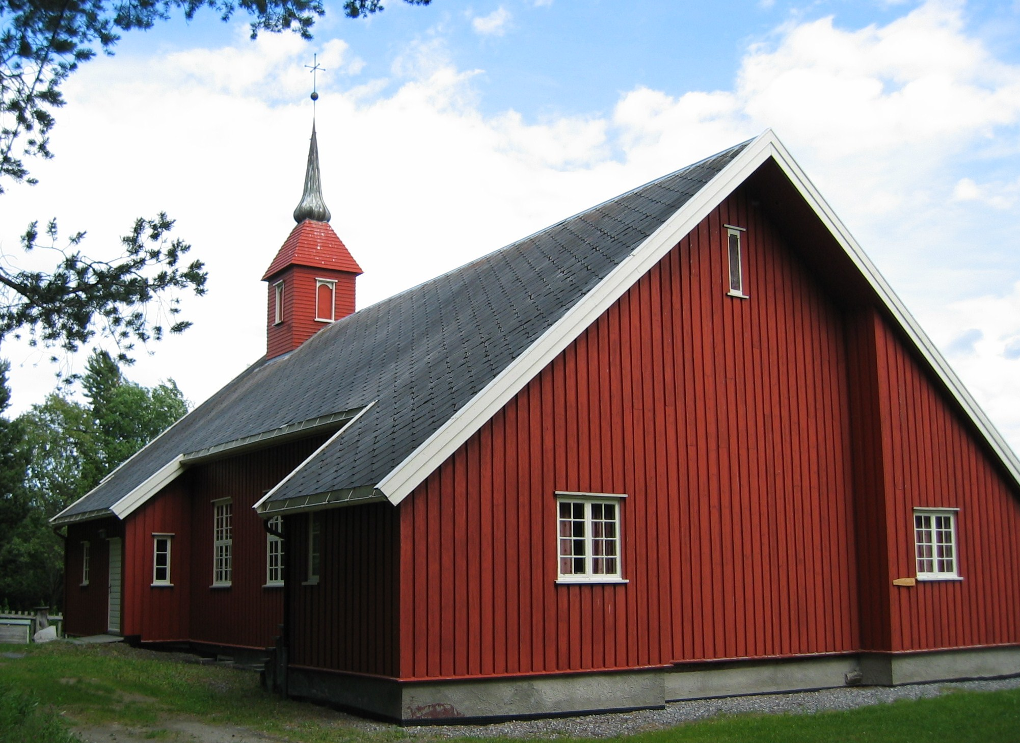 Fagerhaug chapel, Oppdal, Norway